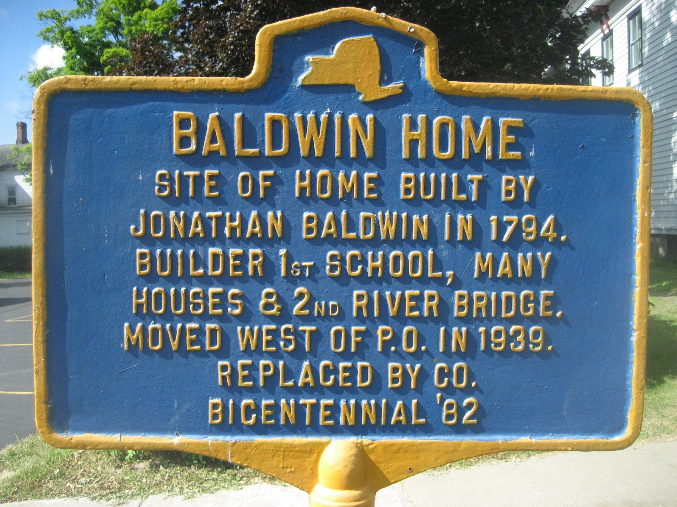 Historic marker of the Baldwin home, built by Jonathan Baldwin in 1794. He also built the first school, many houses and the second river bridge.